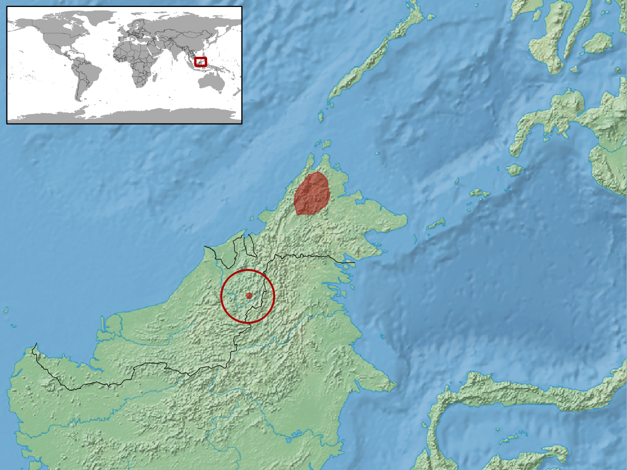 geographic distribution of Calamaria griswoldi (Native: Malaysia (Sabah, Sarawak))